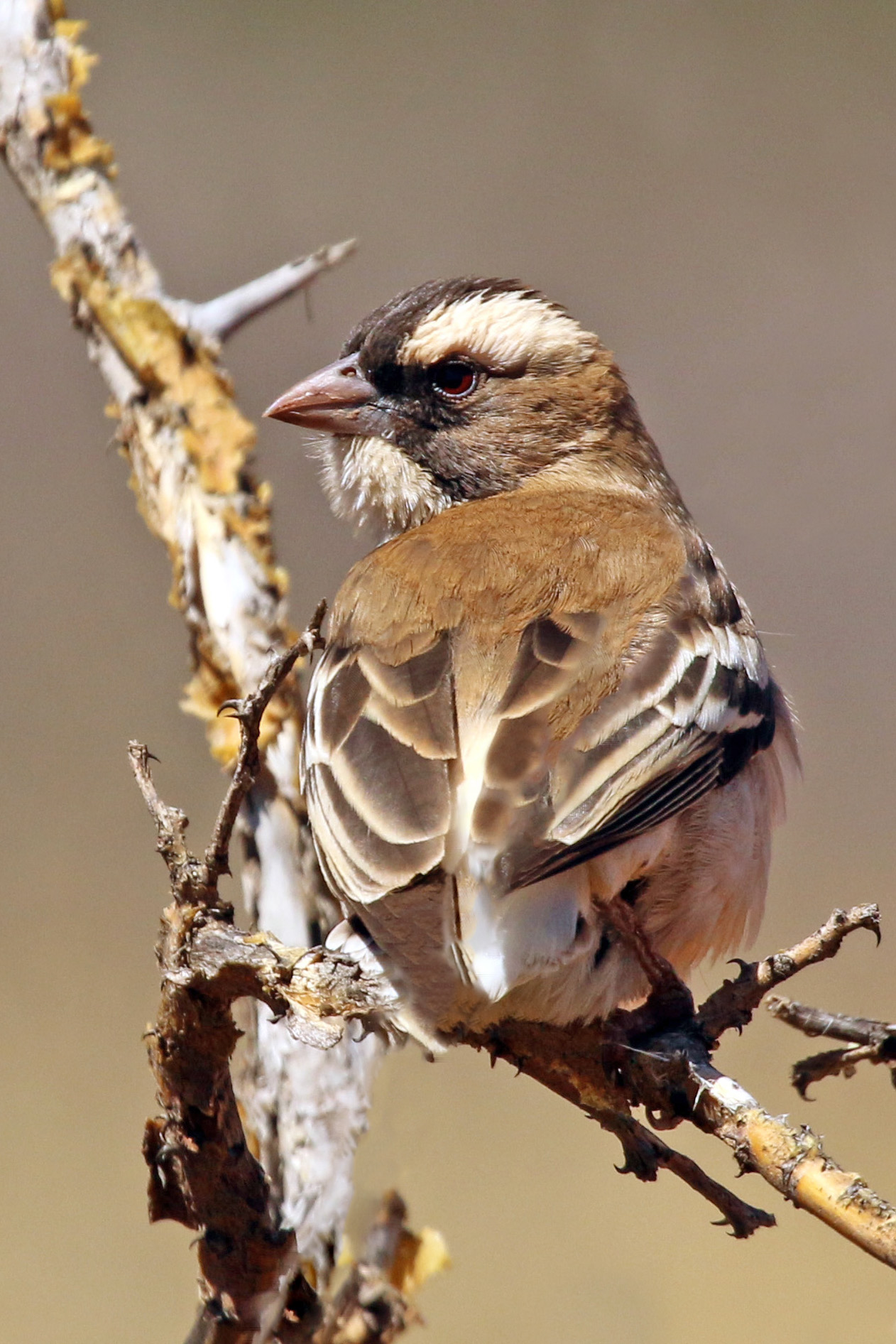 White-browed sparrow-weaver (Plocepasser mahali mahali) female, Tswalu Kalahari Reserve, South Africa